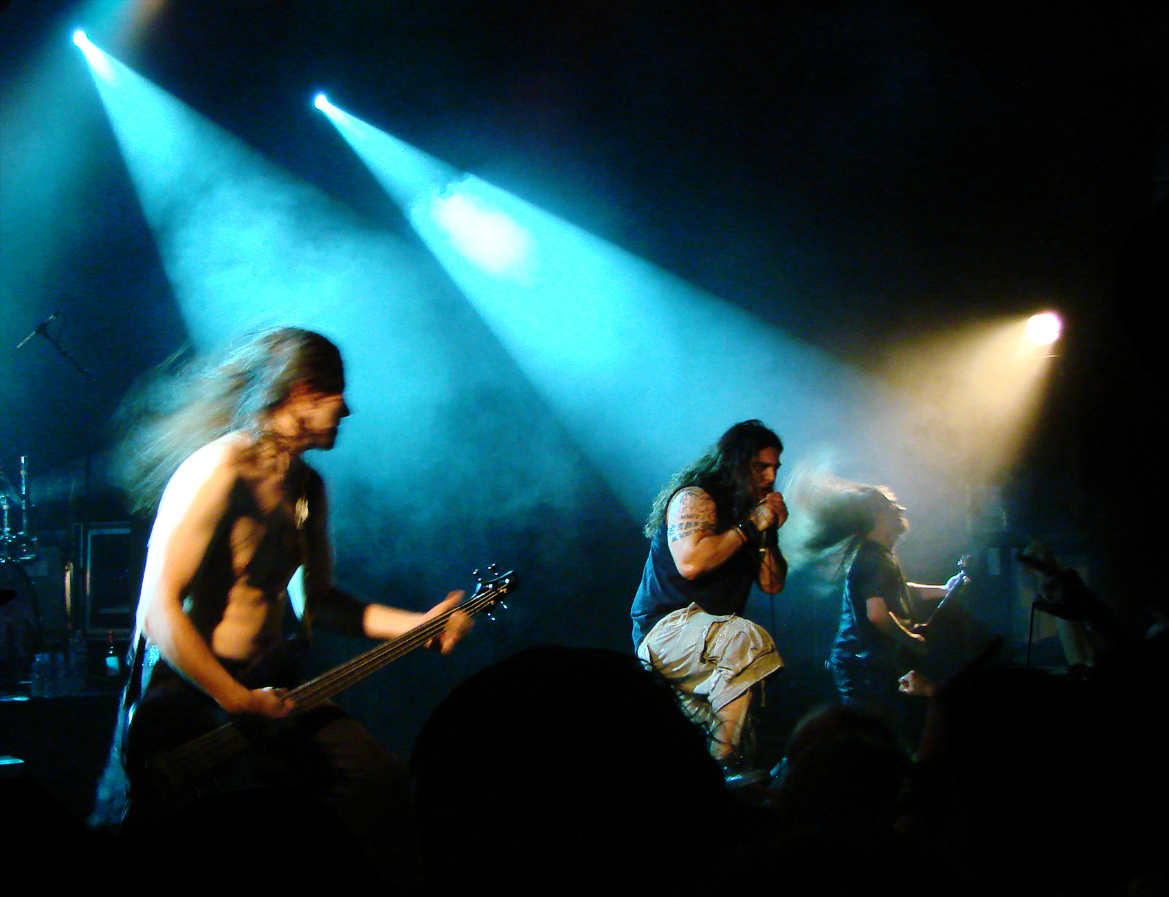 Kataklysm, a Canadian death metal band, during their concert in Strasbourg (France). 06/10/07.